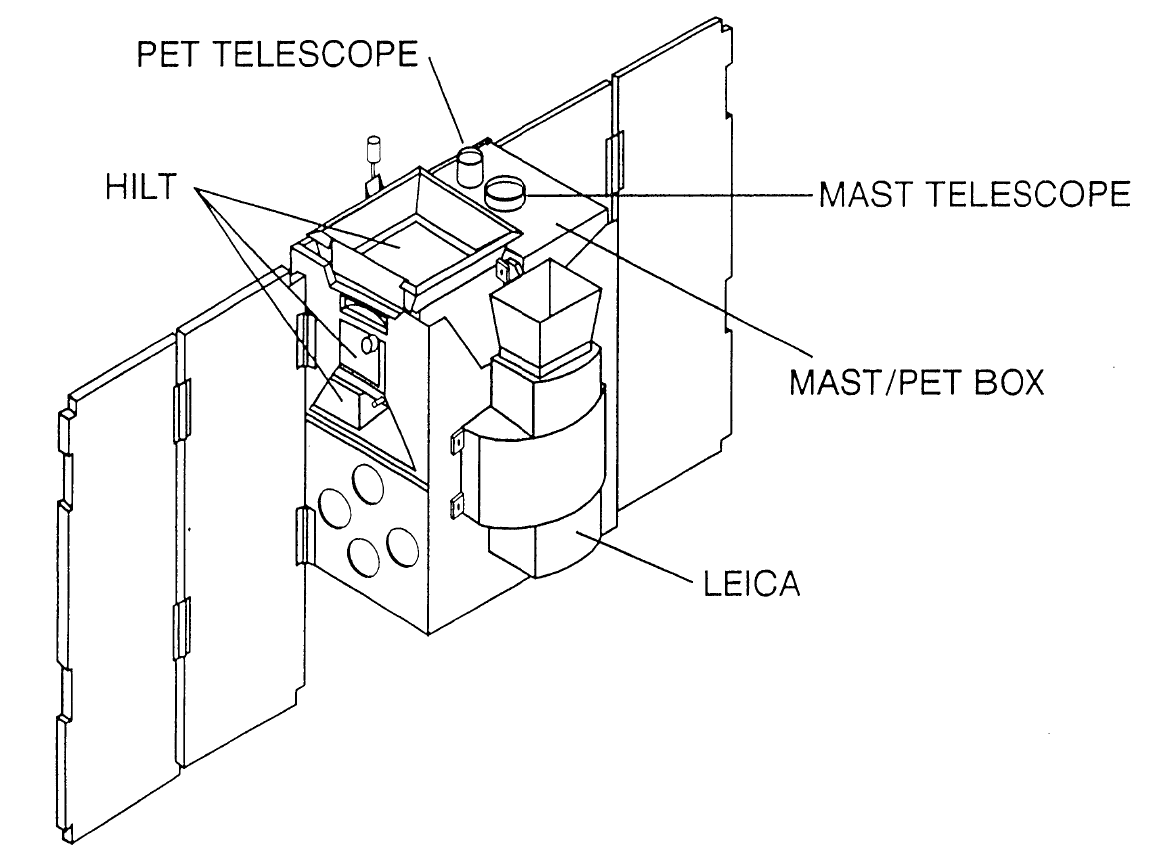 SAMPEX satellite, schematic drawing with instrument lables